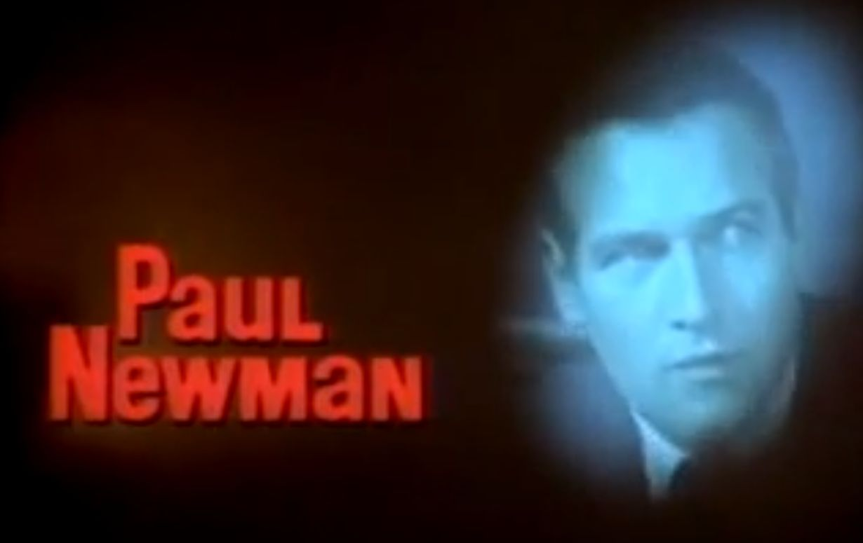 Paul Newman (Torn Curtain)